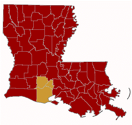 Same-sex marriage in Louisiana Judicial ruling against same-sex marriage ban, stayed pending appeal Same-sex marriage banned